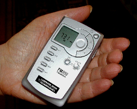 A Landmark Audio Technologies FM350 assistive listening device (ALD)